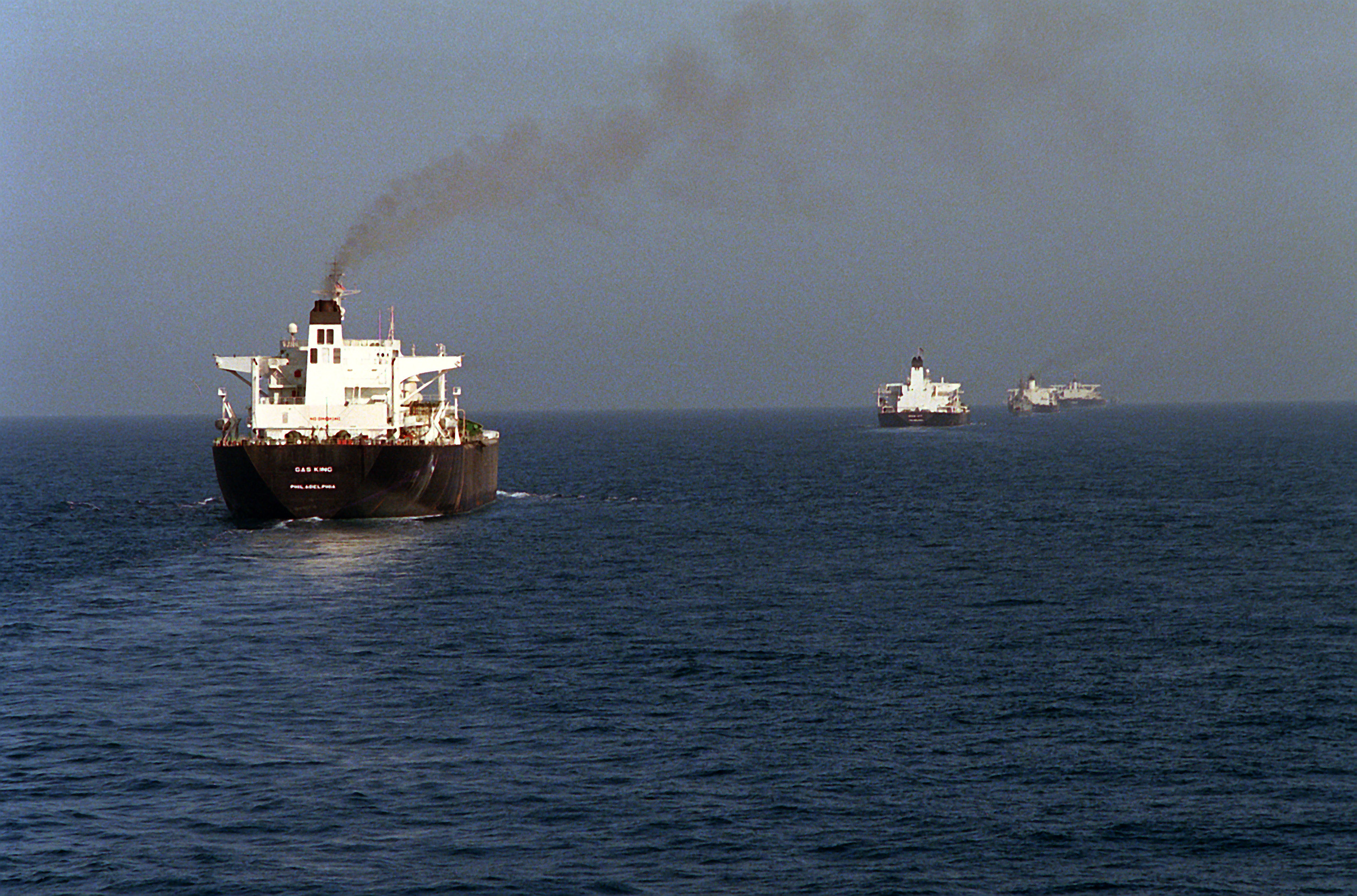 Released to Public ID: DNSC8802245 Service Depicted: Command Shown: N1601 Reflagged Kuwaiti tankers move through Persian Gulf waters escorted by U.S. Navy ships. The convoy includes, from front to back: the GAS KING, OCEAN CITY, SEA ISLE CITY, and BRIDGETON. U.S. Navy ships are serving as protection against possible attack from hostile forces until the tankers reach open waters. Camera Operator: PH2 TOLLIVER Date Shot: 22 Aug 1987